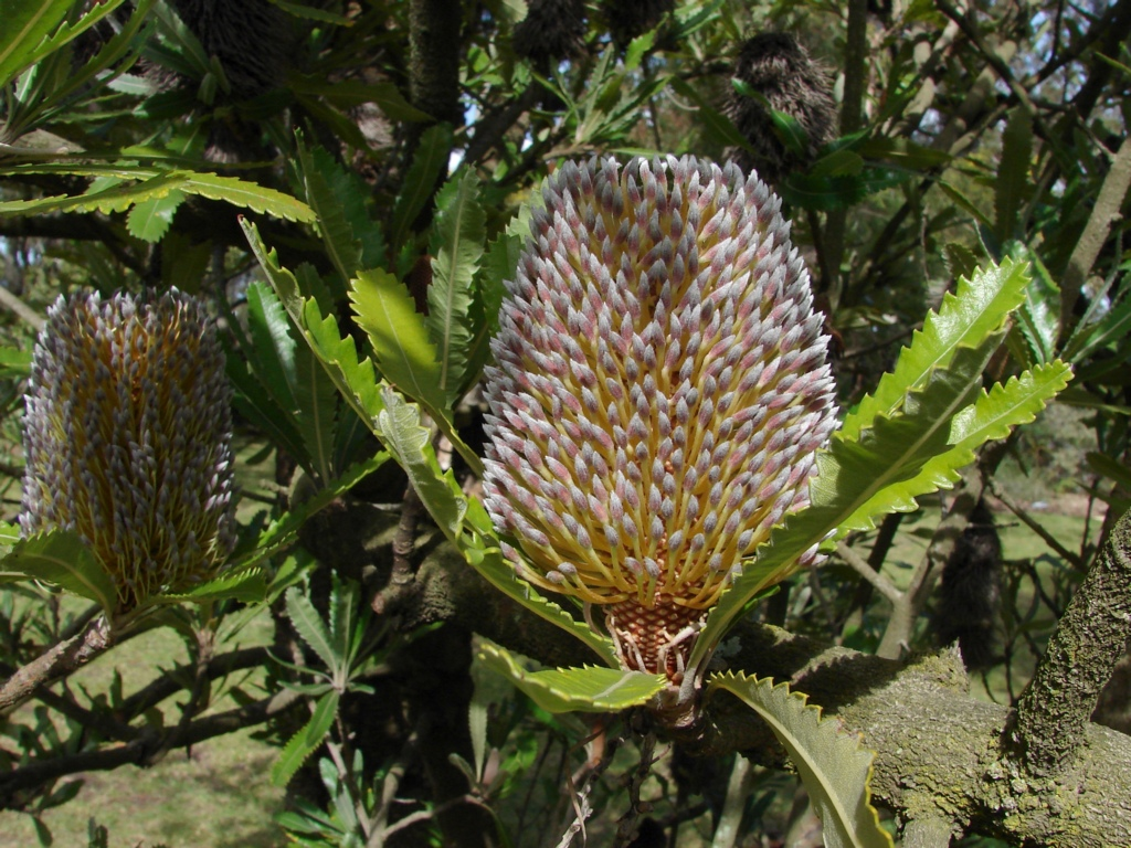 Banksia aemula - Normally spreading shrub, but this one is quite a big tree, grows in Melbourne, Maranoa Gardens, Balwyn